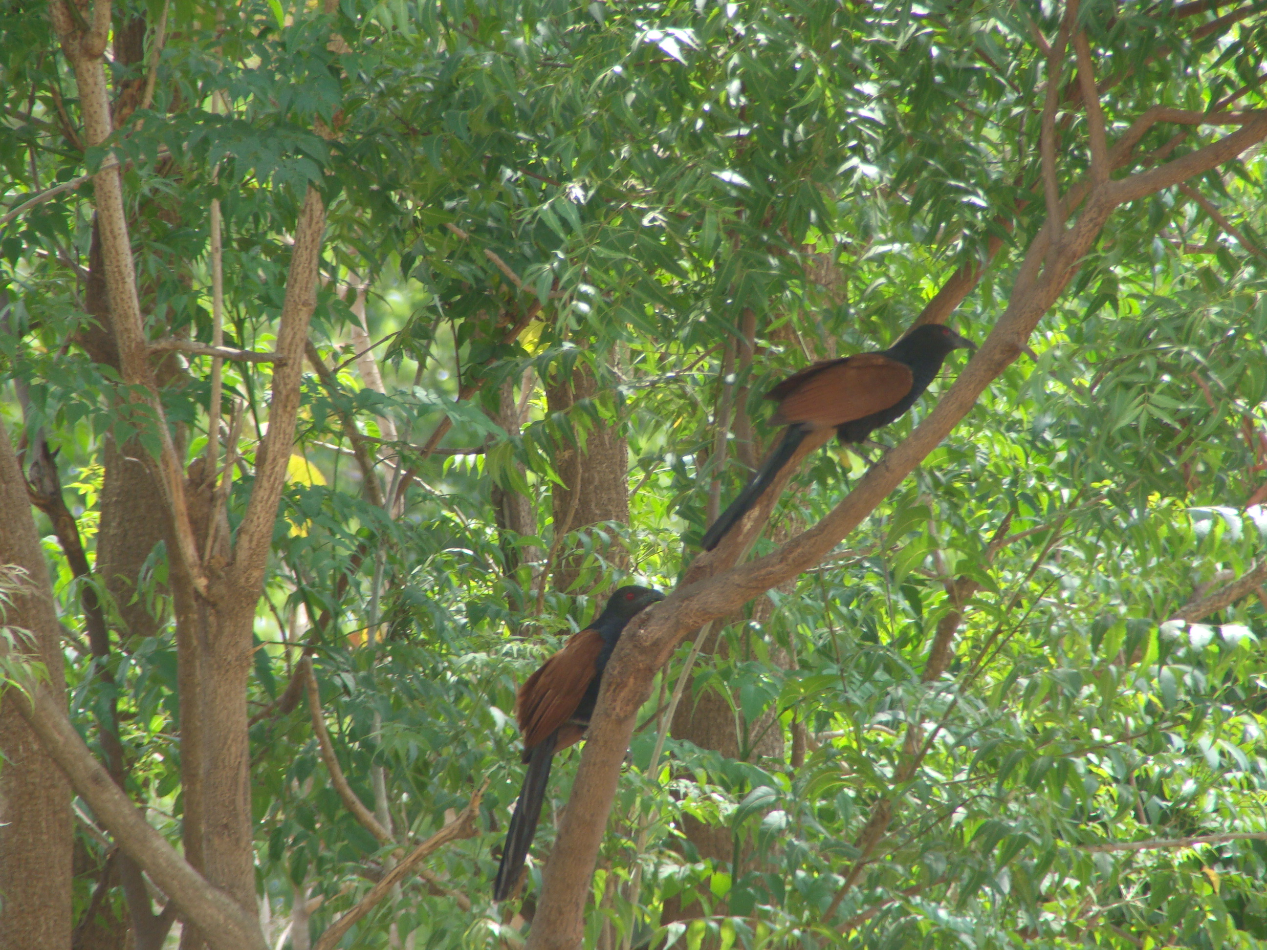 A pair of Greater Coucal